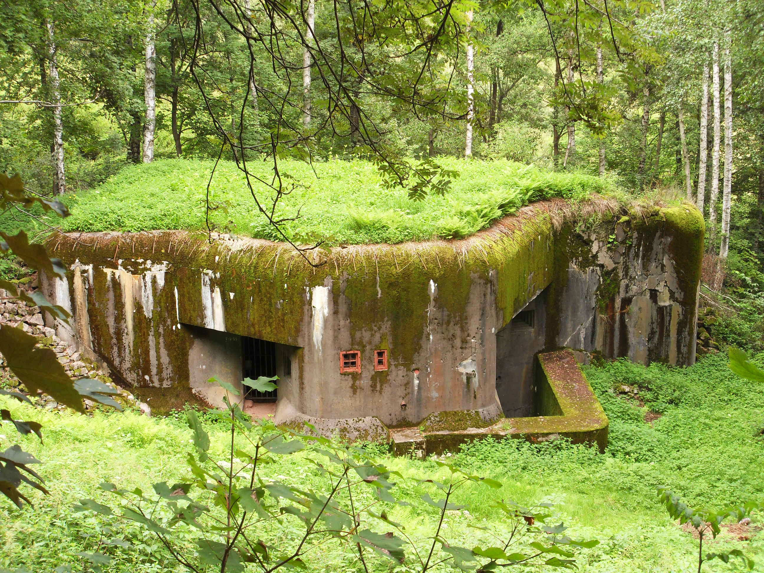 T-S 55 Na stráni infantry casemate, Trutnov District, Czech Republic